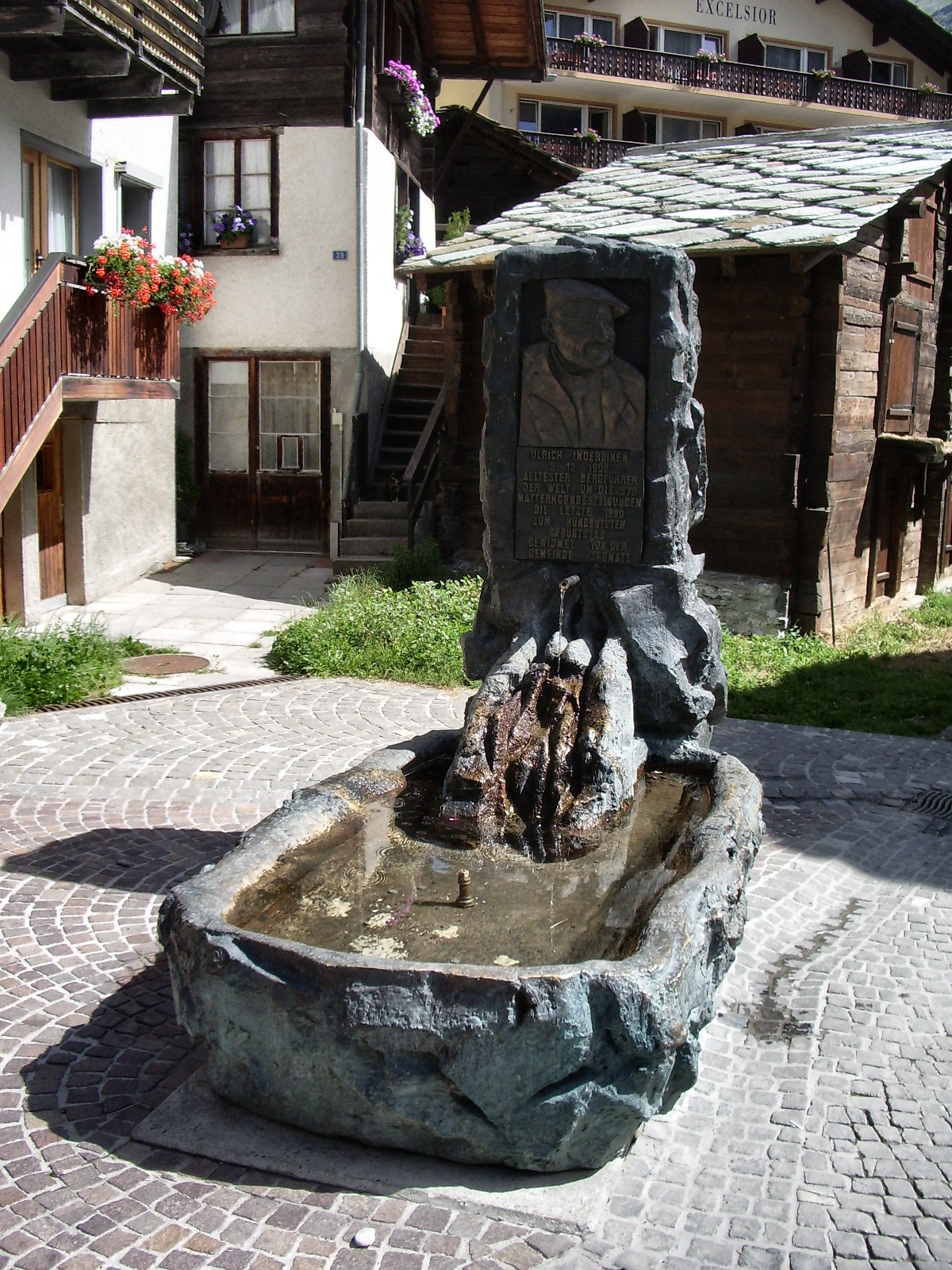 Fountain dedicated to mountain guide Ulrich Inderbinen at the old core of Zermatt